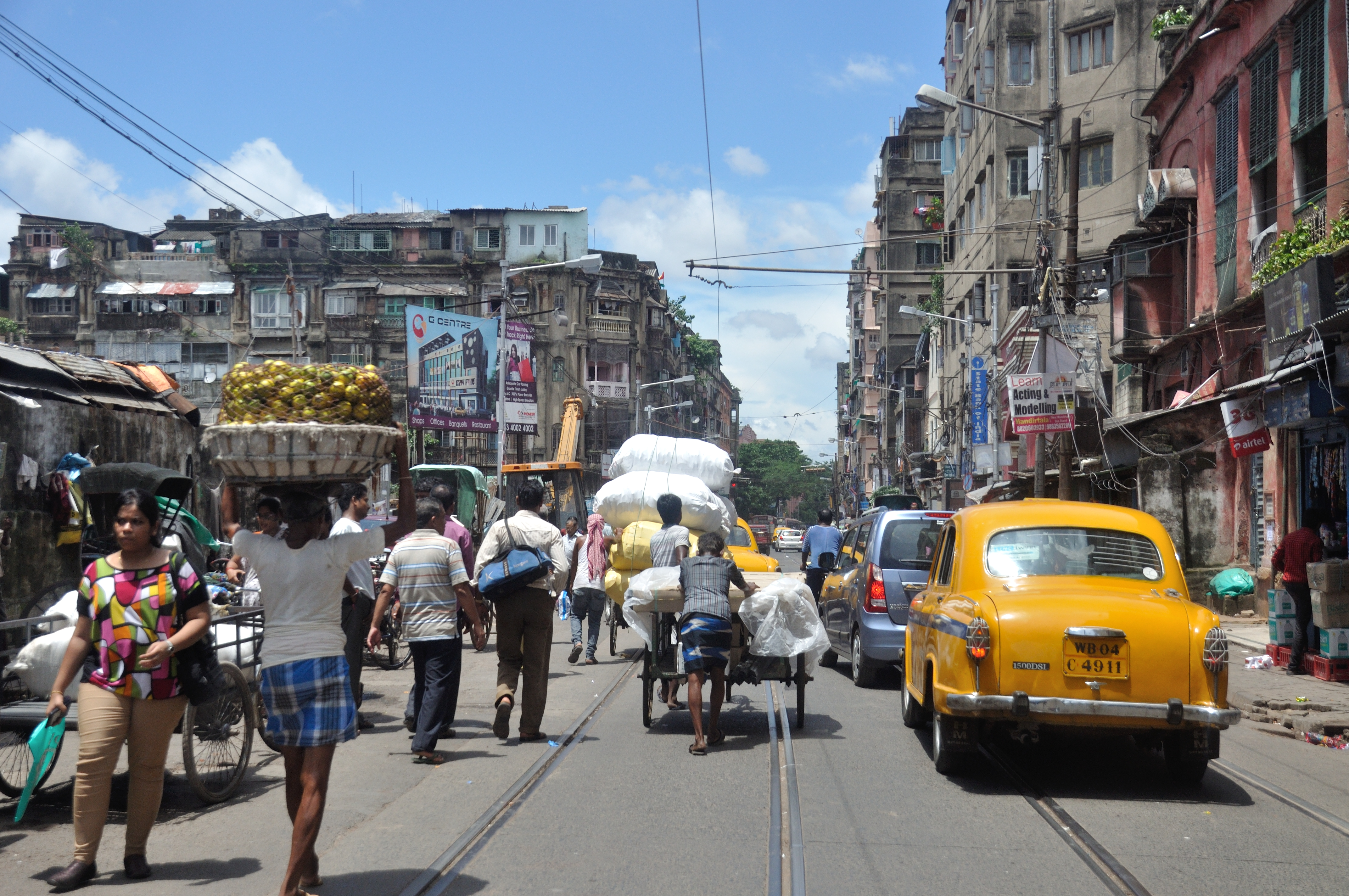 Photographed in Kolkata.